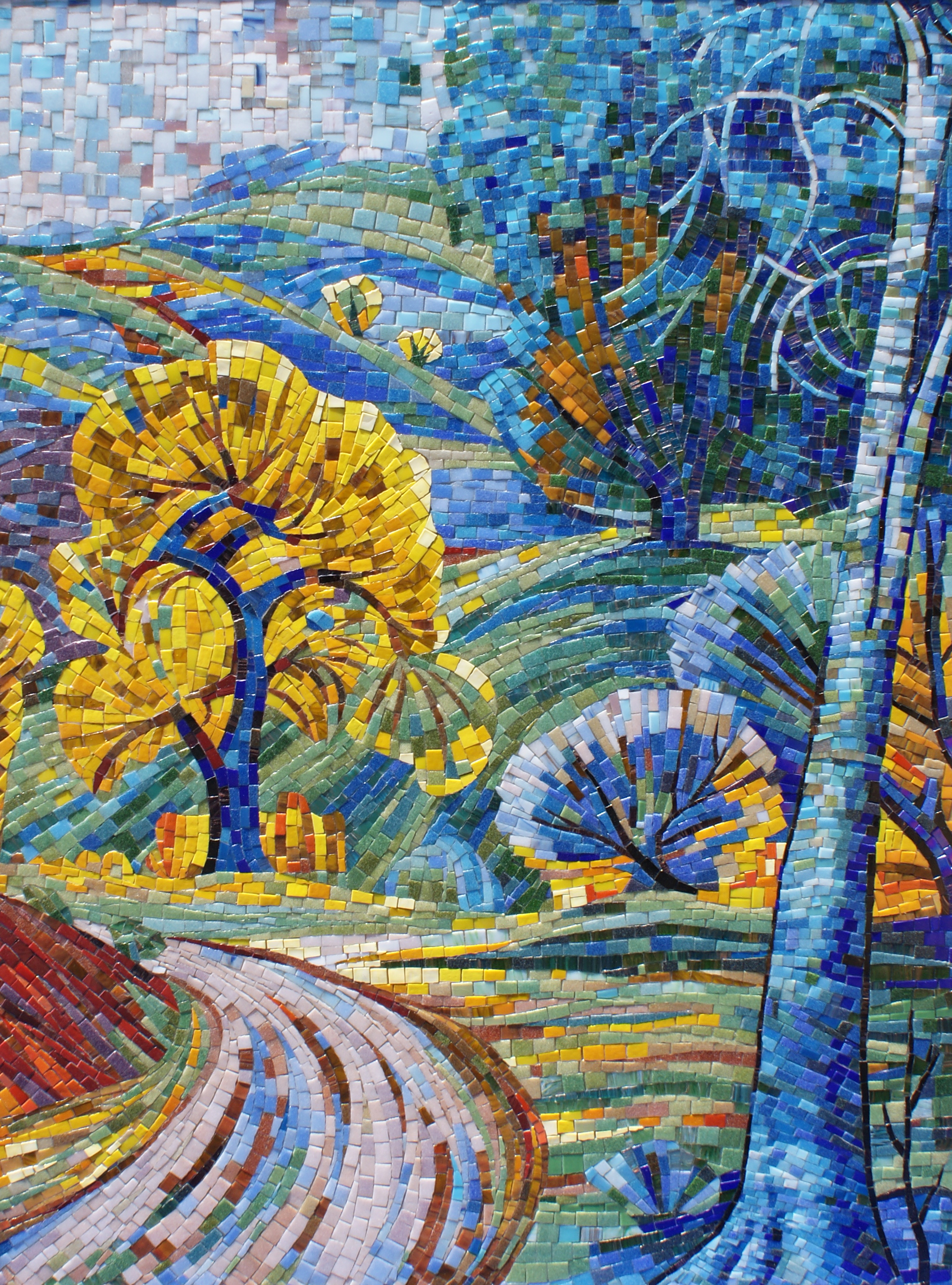 Mosaic glass tile mural